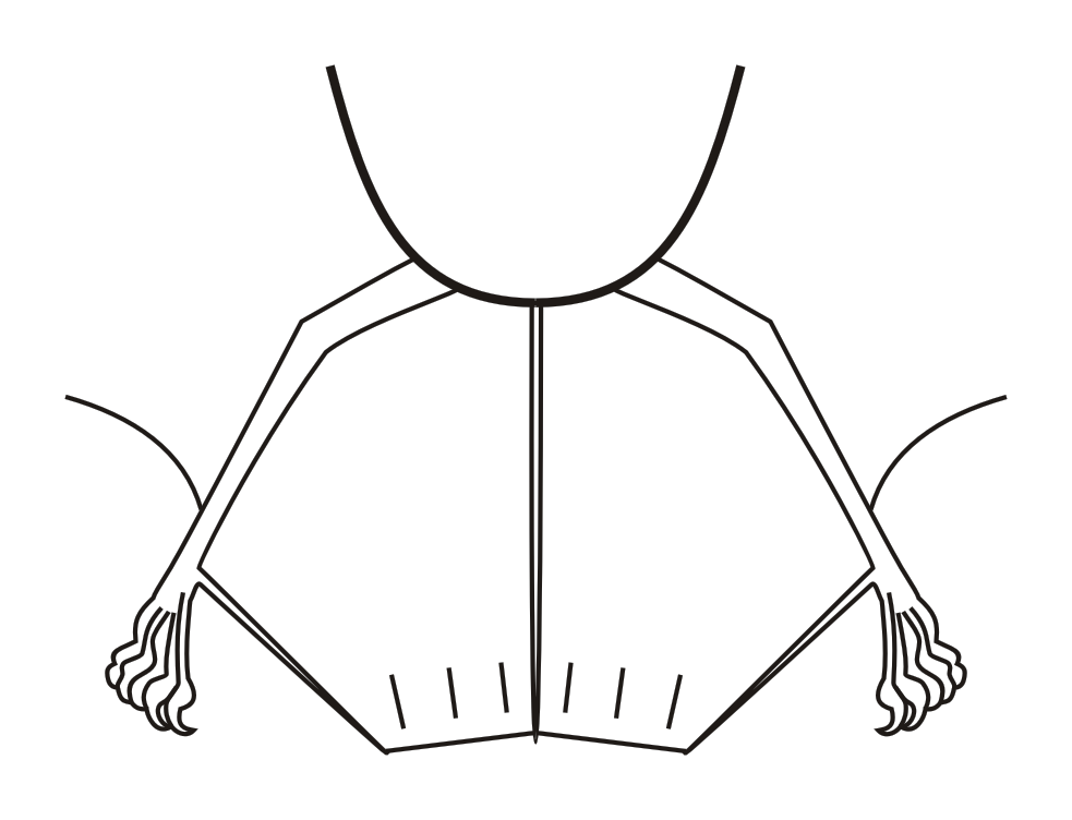 According to Husson, 1962 shows interfemoral membranes, calcar, feet and tail in bats of genus Macrophyllum